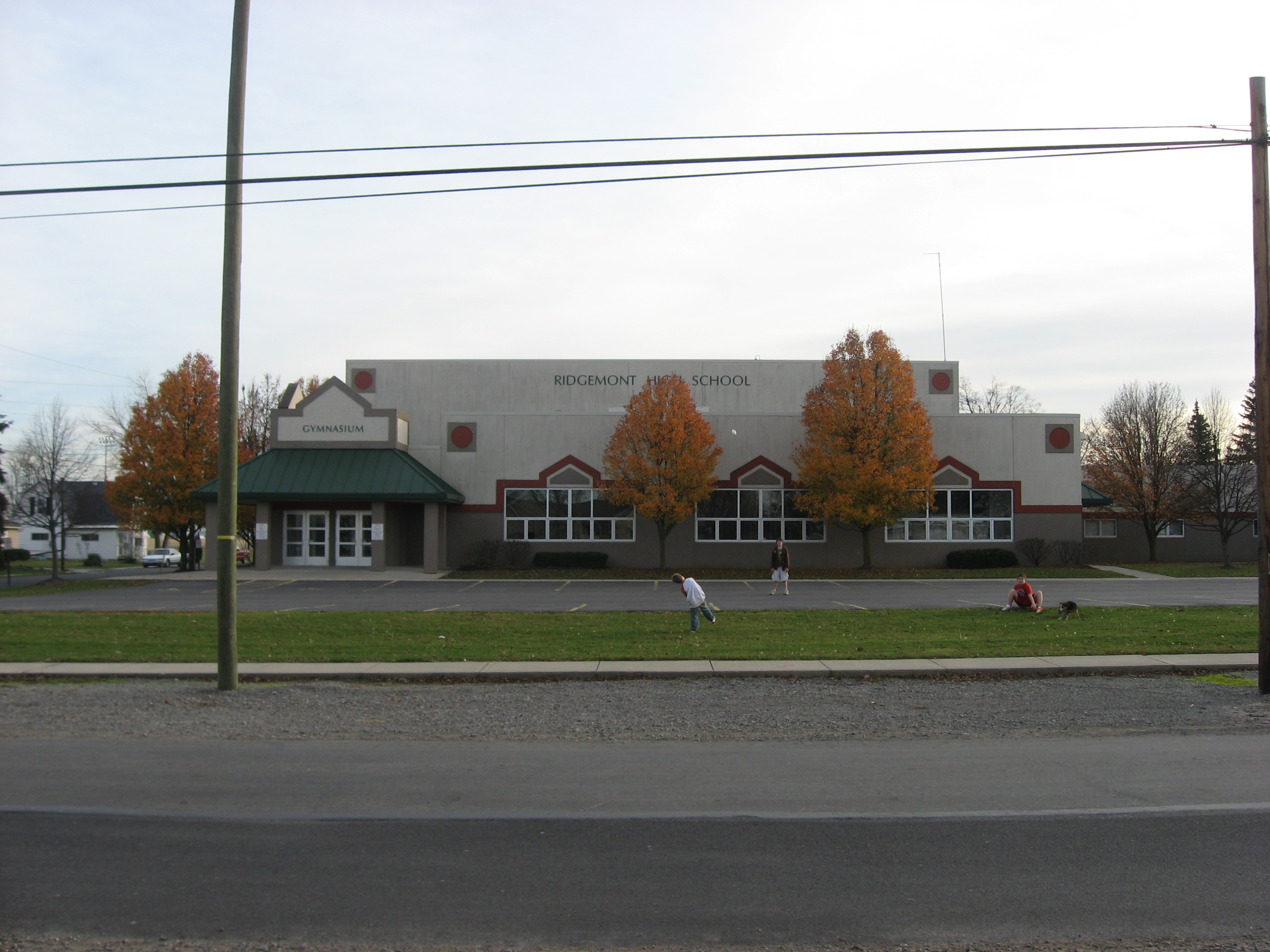 Boys playing ball in the parking lot of Ridgemont High School, located at 162 E. Hale Street in the Hardin County portion of Ridgeway, Ohio, United States.